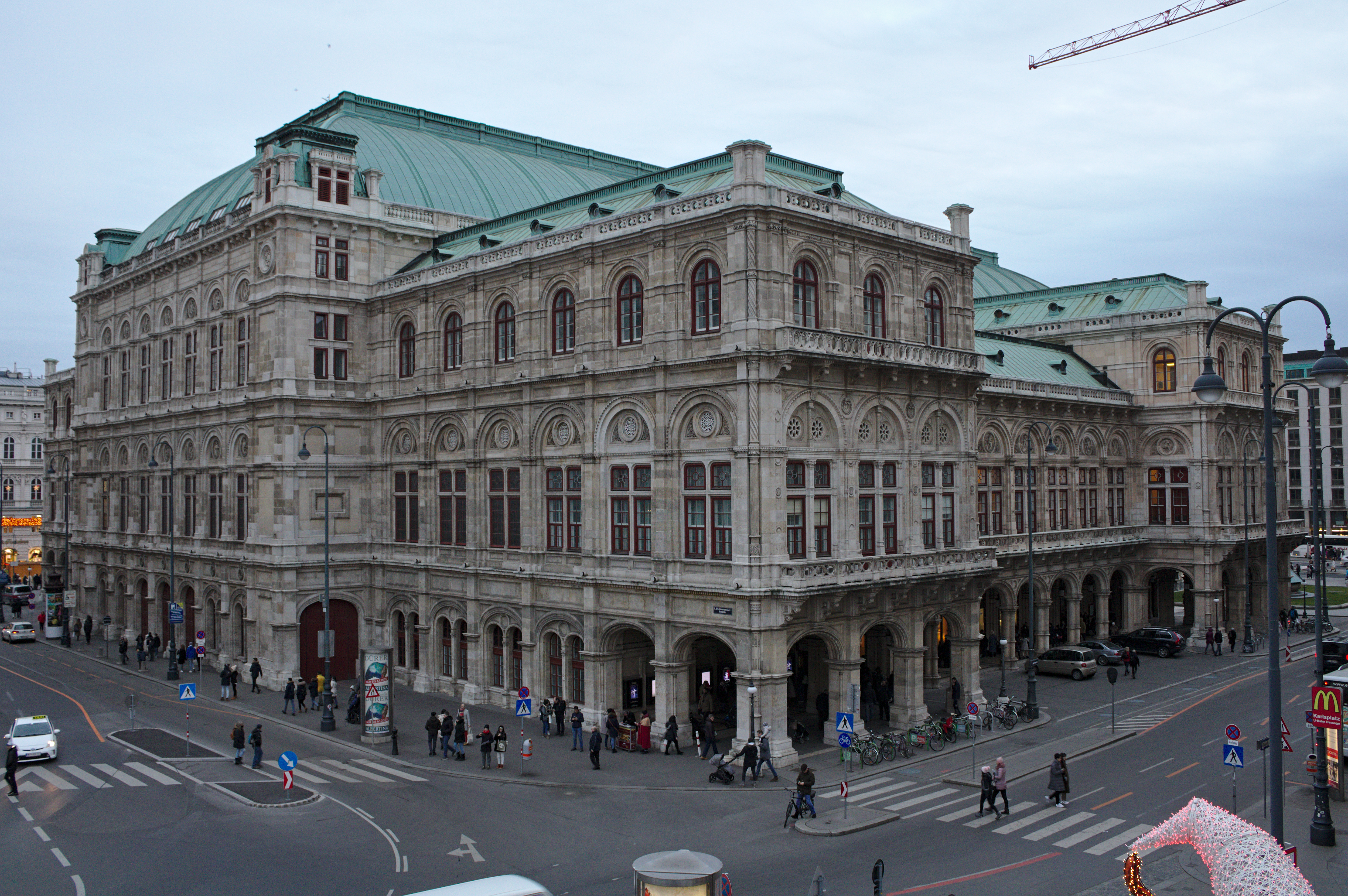 Albertinaplatz_Vienna_19-20